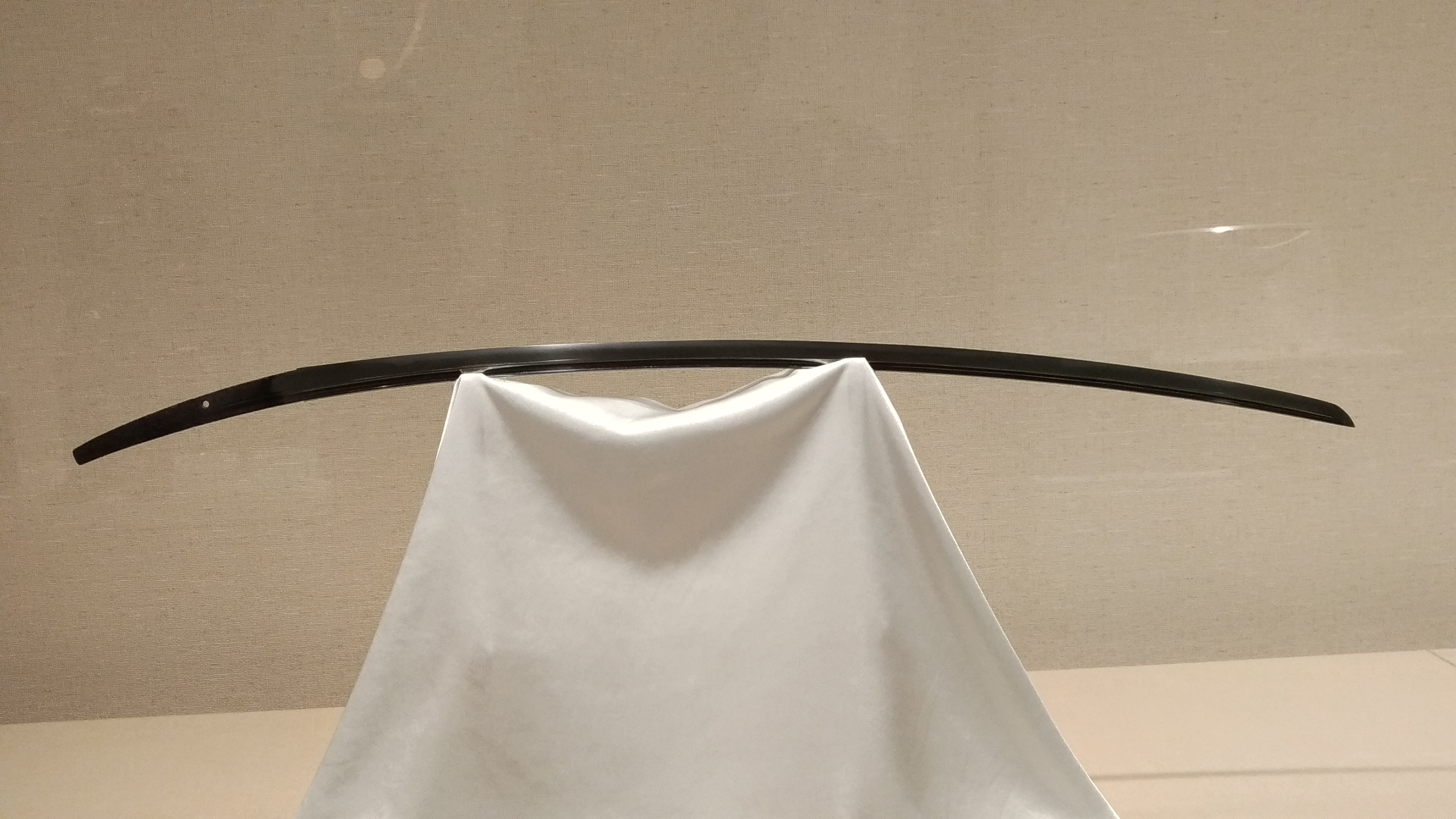 Tachi dedicated to Daizaifu Tenmangu by Taira no Shigemori in 1175.